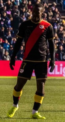 Real Valladolid - Rayo Vallecano, 18th fixture of the 2018-19 La Liga, January 5, 2019.